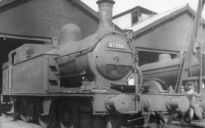 LNER C12 67356 at King's Lynn MPD in 1957.